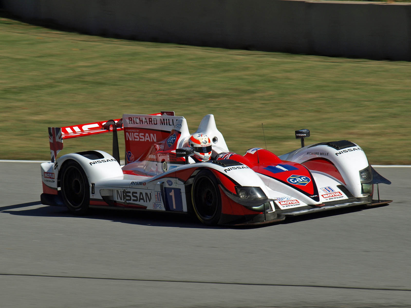 Alex Brundle in the Greaves Motorsports Zytek Z11SN-Nissan during qualifying for the 2012 Petit Le Mans